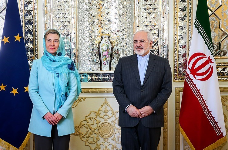 Iranian Foreign Minister Mohammad Javad Zarif and visiting EU Foreign Policy Chief Federica Mogherini held talks in Tehran and exchanged views about bilateral relations between the Islamic Republic and the European Union (EU) and the latest developments in the region and the world.